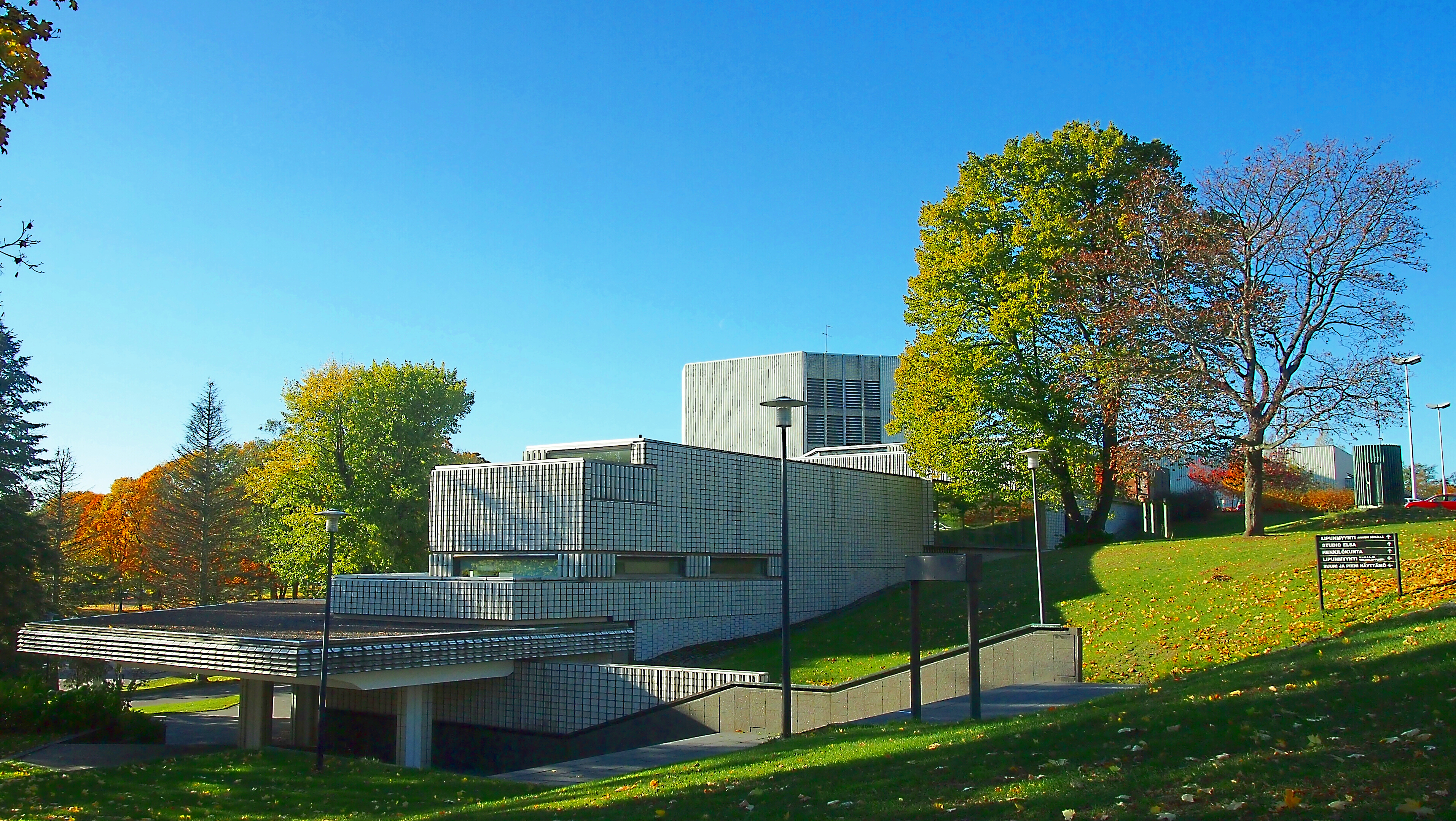 The Helsinki City Theater in the Fall of 2014.